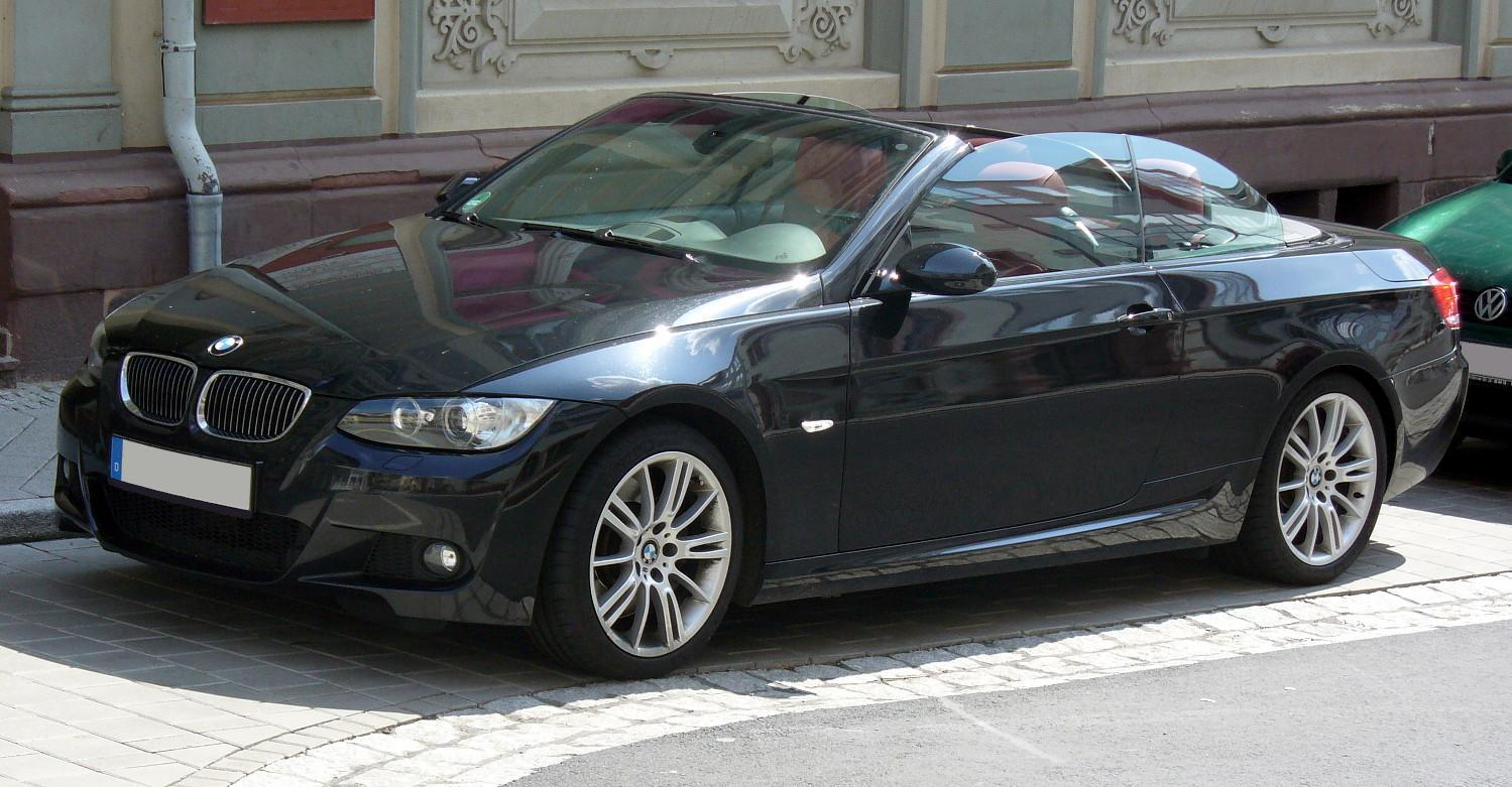 BMW E93 M-Sport